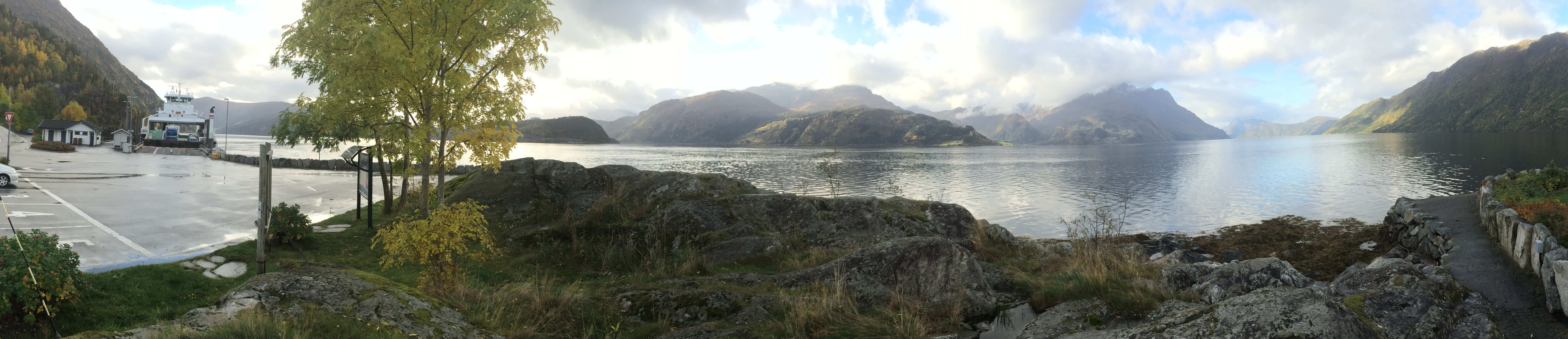 Fold-out-panorama of ferry site at Lote by Nordfjord in Sogn og Fjordane, Norway. (iPhone panoramic photo, distortion may occur in details and continuity.)